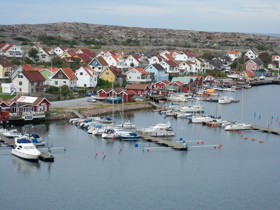 View of Smögen (Sweden)